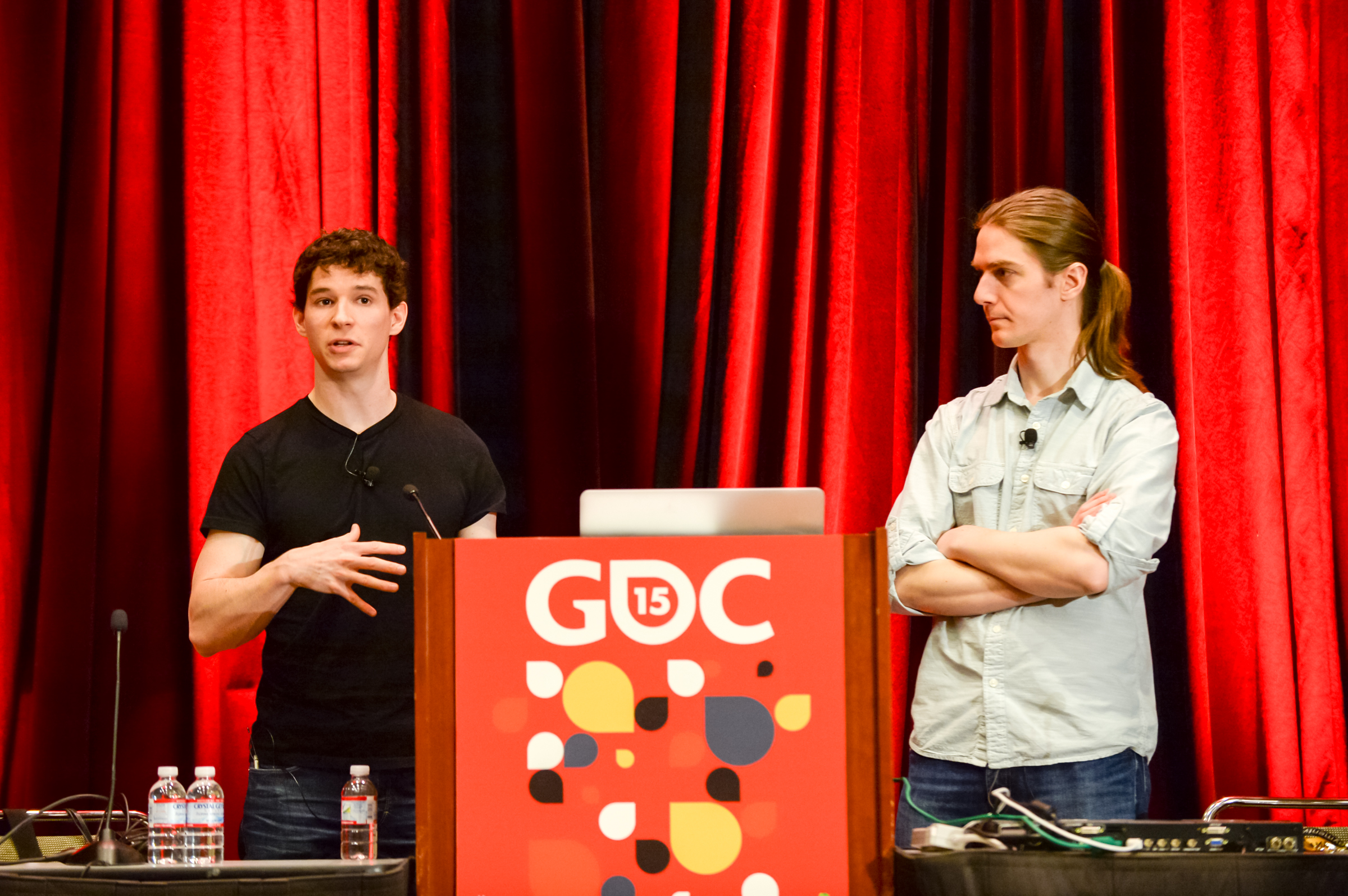 "More Than This World: A Design Retrospective on Sid Meier's Civilization: Beyond Earth Will Miller | Co-Lead Designer, Firaxis Games David McDonough | Co-Lead Designer, Firaxis Games Location: Room 3016, West Hall Date: Thursday, March 5 Time: 3:00pm - 3:30pm"